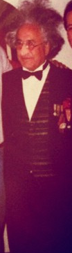 Fernando Larraín Munita caracterizado como su personaje "El Mago Helmut"